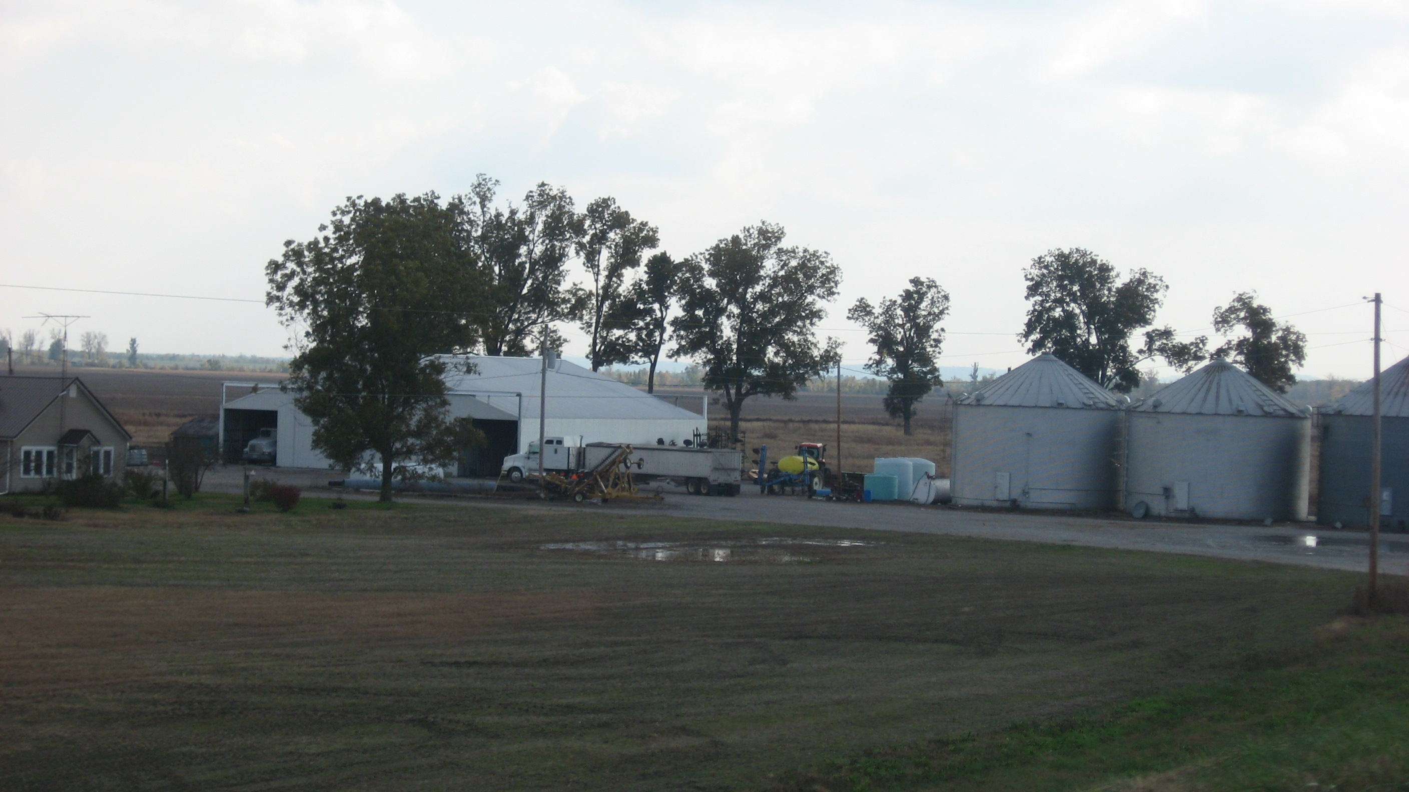 Overview of the only farm on Grand Tower Island, seen from the levee road in the island's west. The island is part of Perry County, Missouri, United States, although the bluffs in the far distance are part of Jackson County, Illinois.